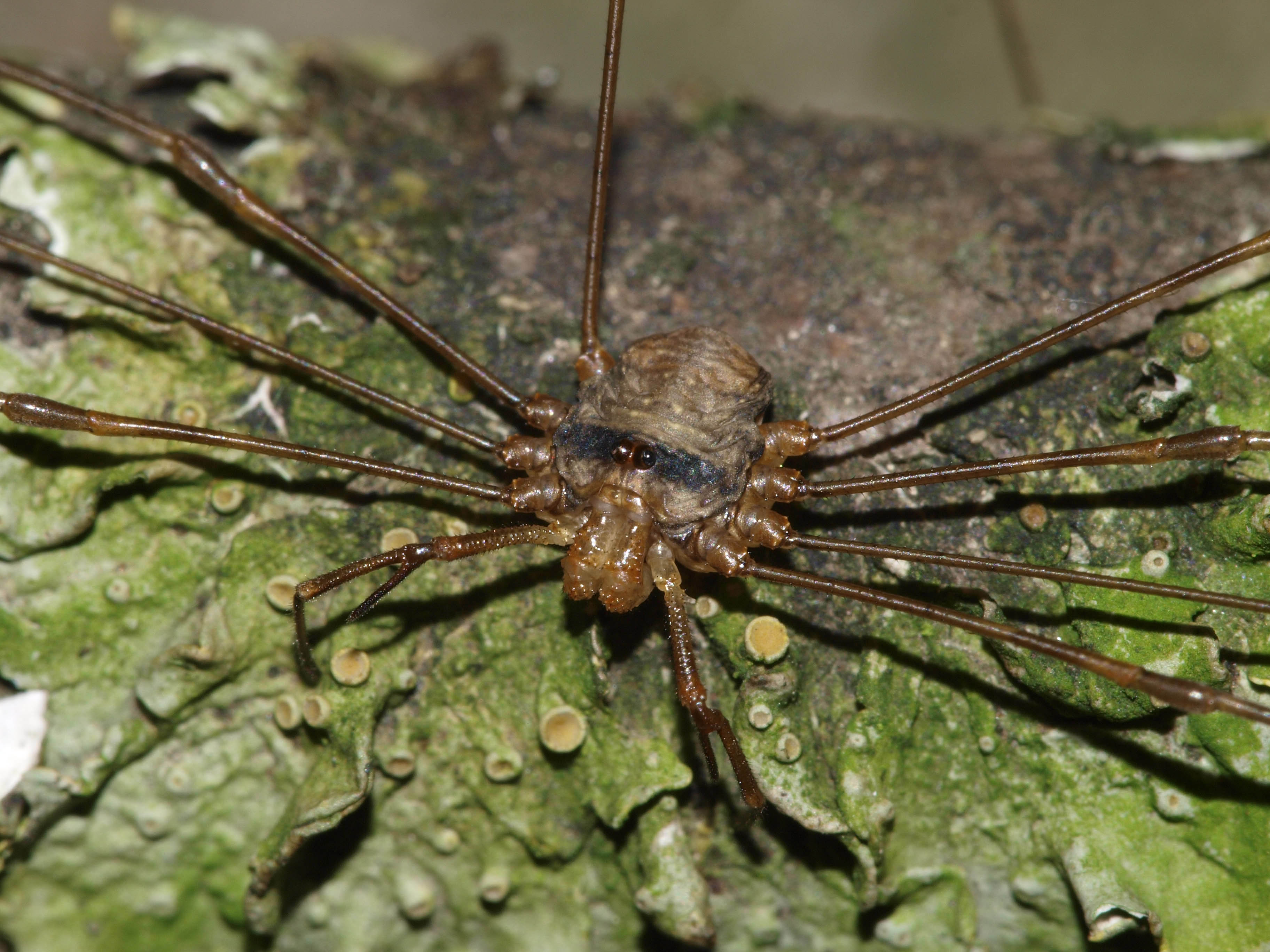 Male Dicranopalpus ramosus 2